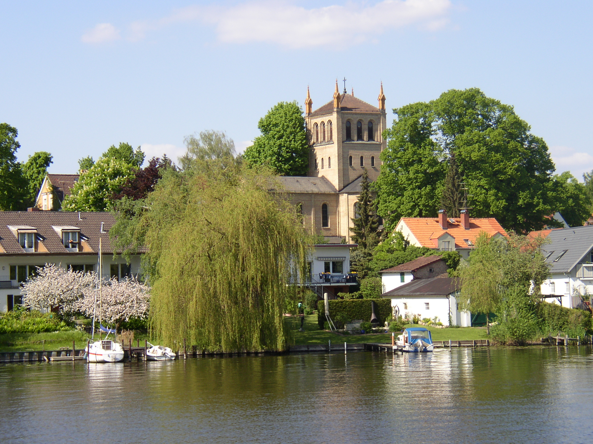 Church at Lake Stölpchensee